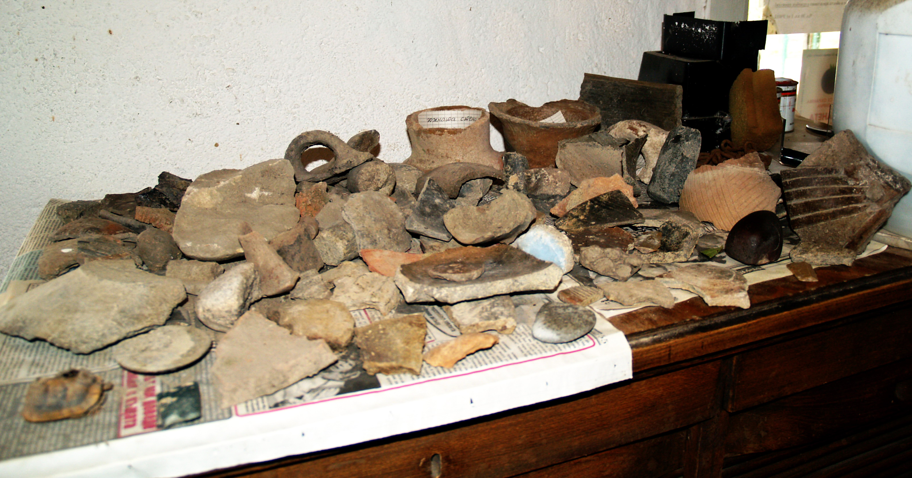 Recent findings from Karanovo mound, near village Karanovo, Sliven district, Bulgaria